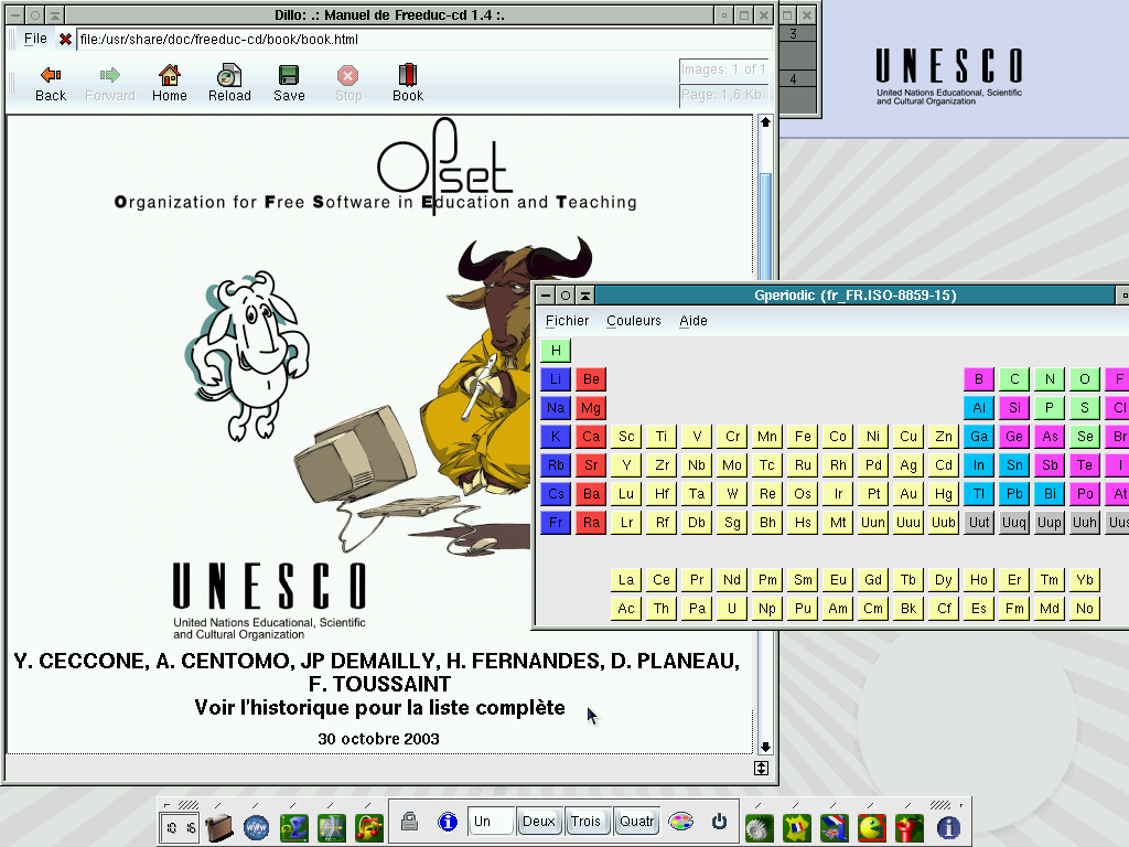 The desktop of Freeduc-CD 1.4, with Freeduc-book in French and a chemistry application